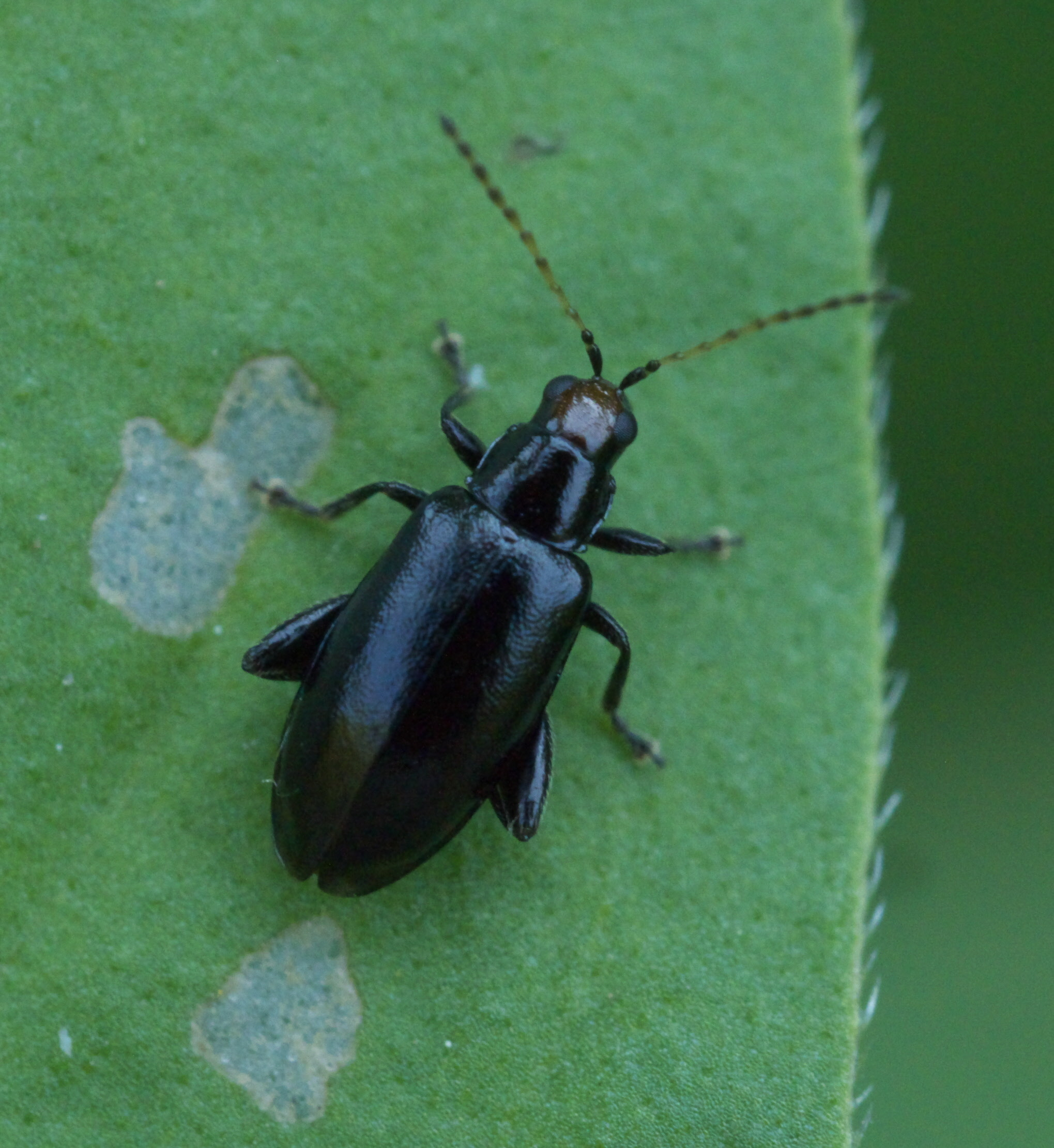 Systena frontalis, Red-headed Flea Beetle, ID Confidence: 87